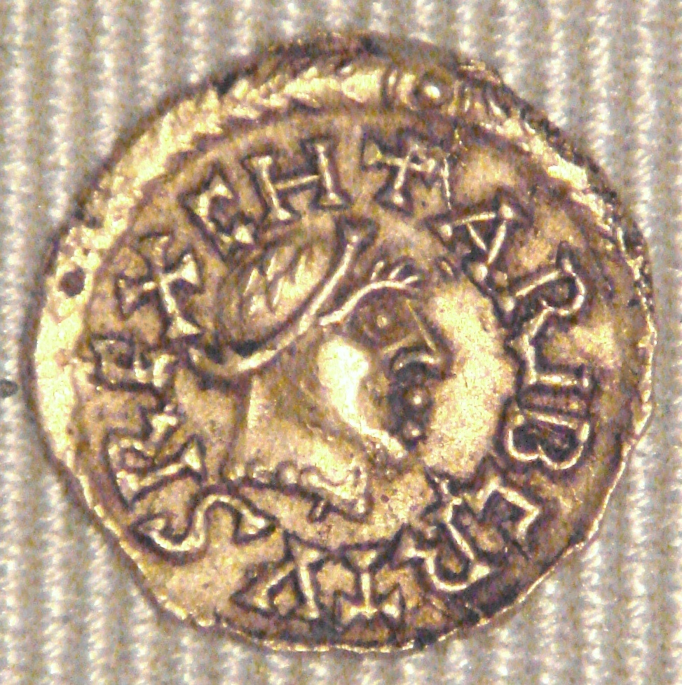 Caribert_II_Tremissis_Banassac_629_632